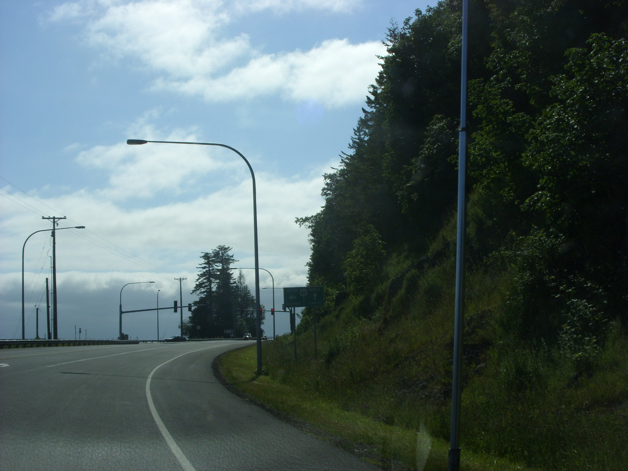 Washington State Route 409 at the U.S. Route 101 intersection located at the northern end of the Astoria – Megler Bridge west of Megler.